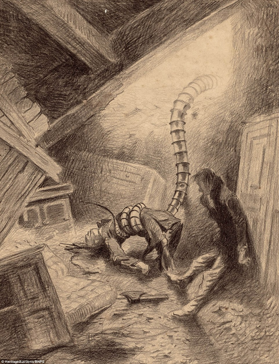 This drawing was made by henrique alvim correa showing a martian tentacle take away a body